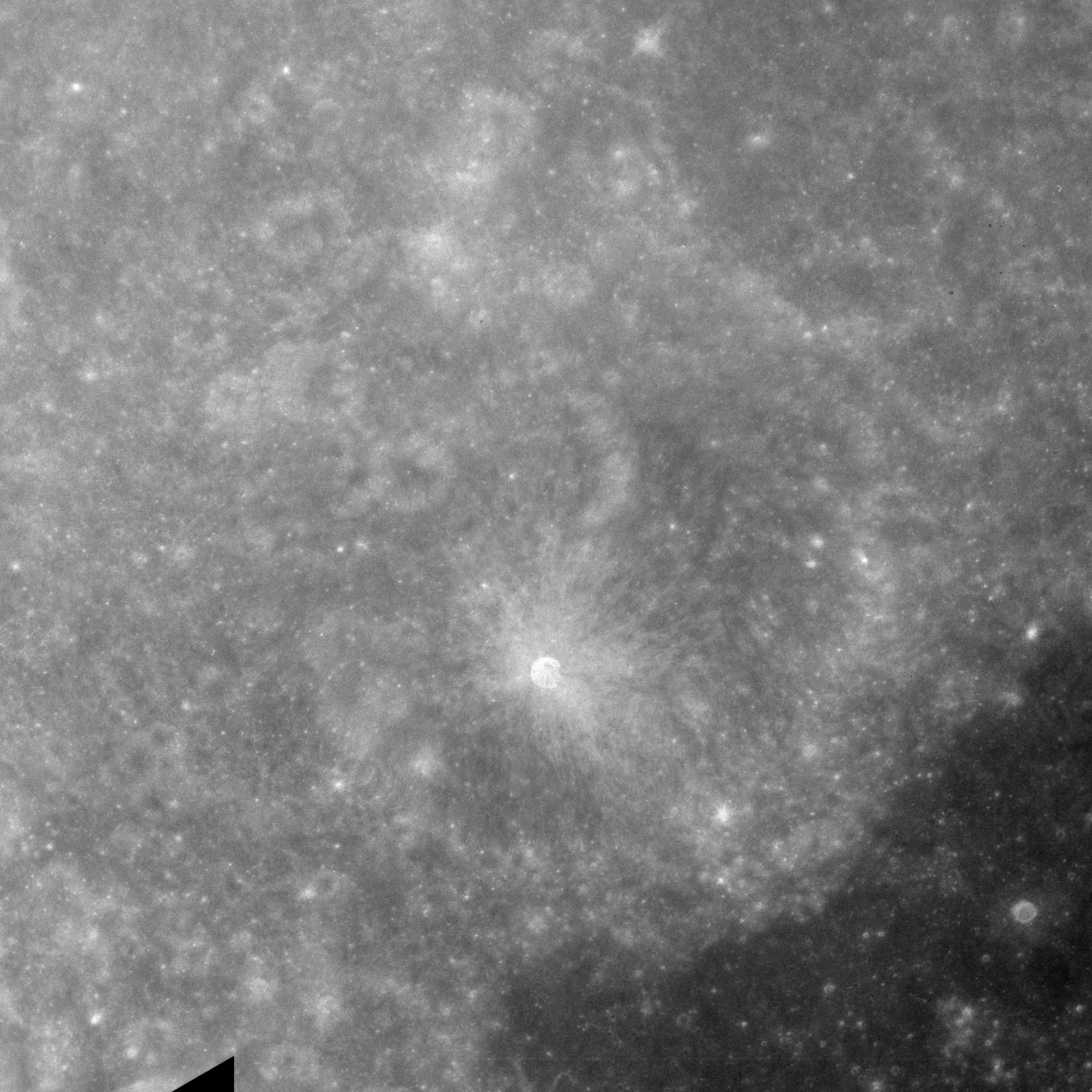 Tacchini crater, on the north rim of Mare Smythii, the moon.